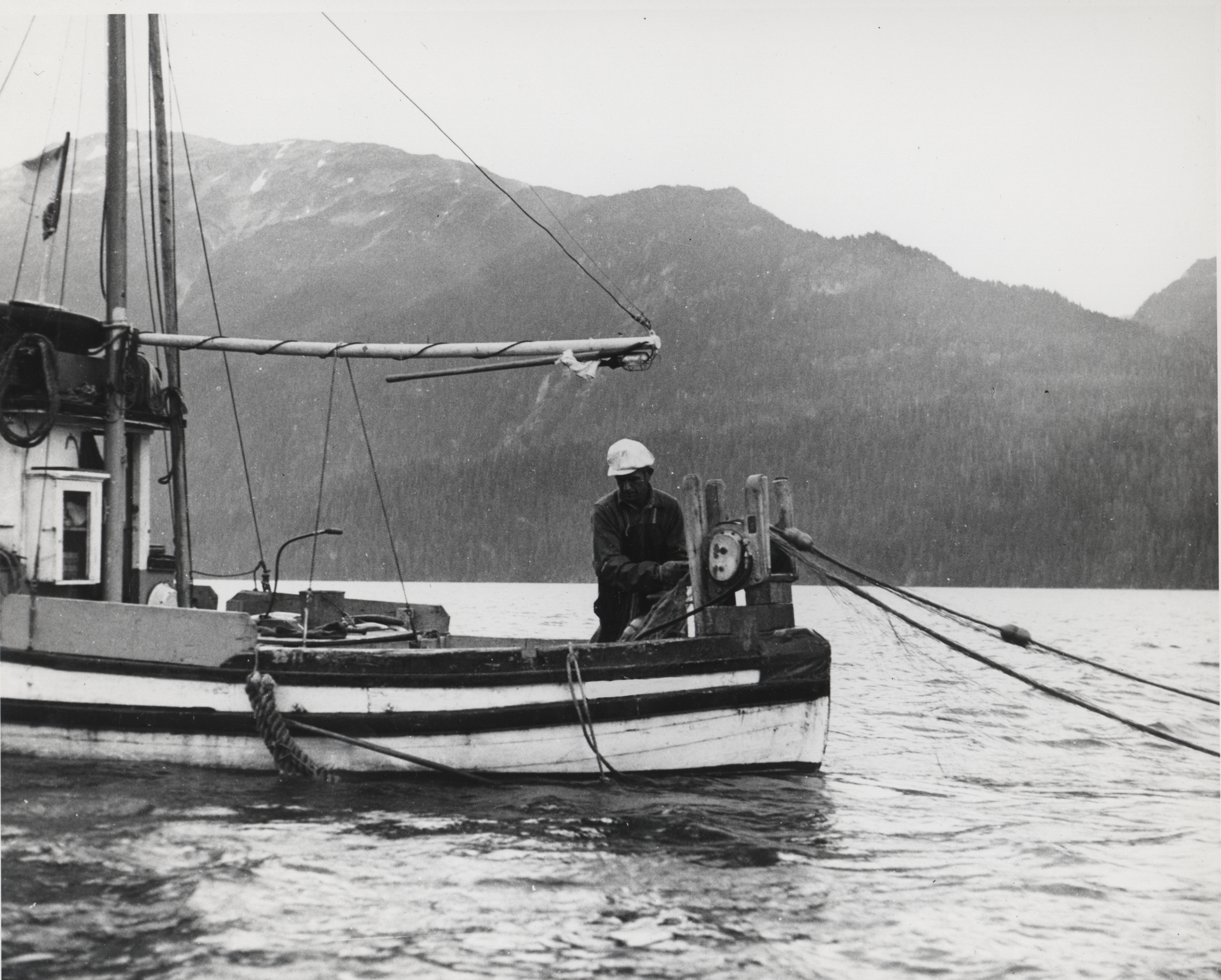 Recovering salmon longline (of gill net) Image ID: fish5721, NOAA's Historic Fisheries Collection